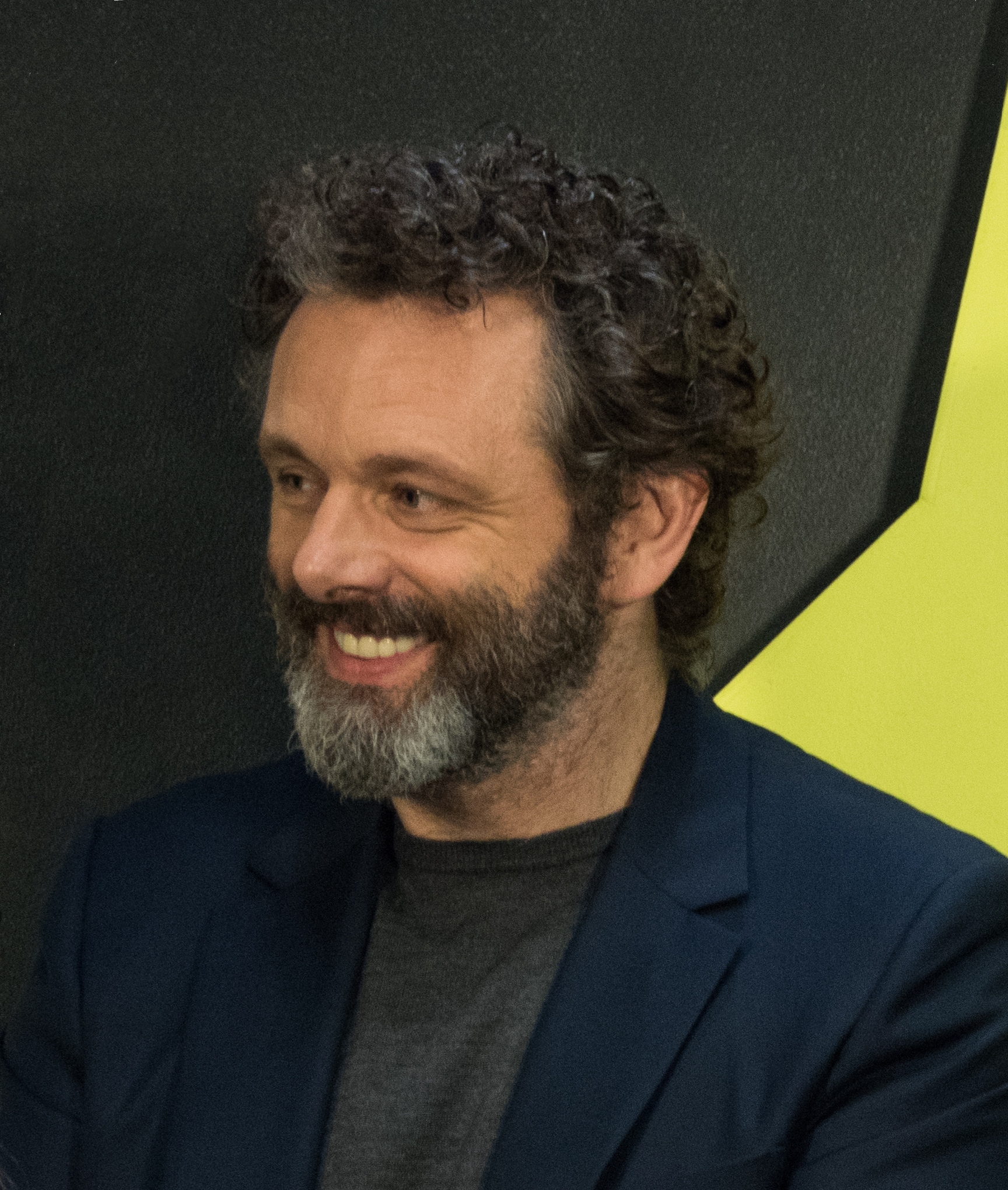 Michael Sheen, Jon Hamm, and Neil Gaiman on the Good Omens panel at New York Comic Con in October 2018.